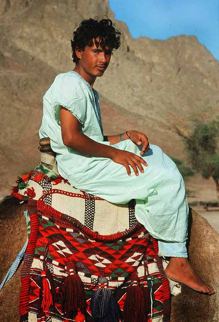 A Negev Bedouin male.